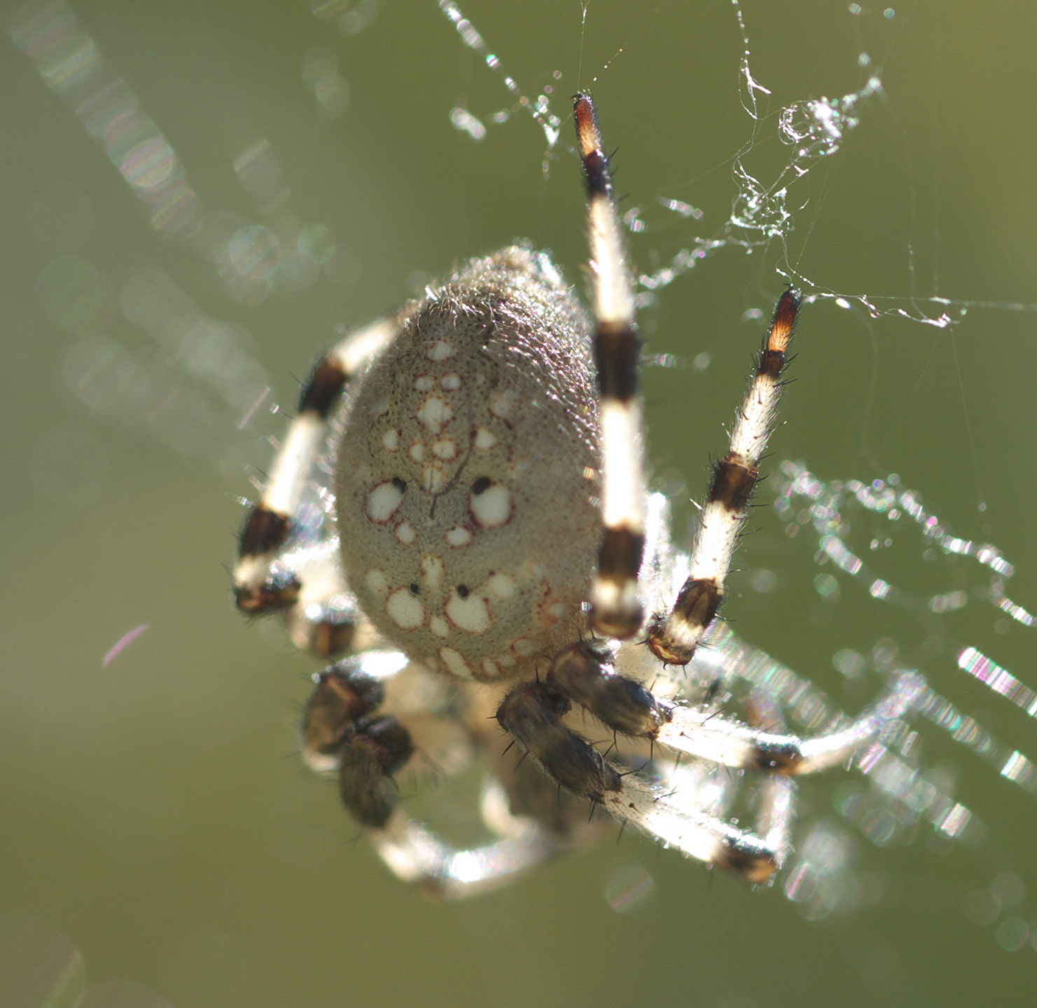 Araneus trifolium, Shamrock Orbweaver, ID Confidence: 90